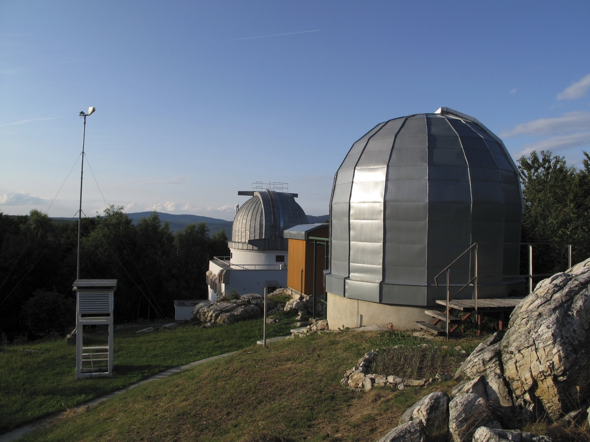 Modra observatory complex, Solar telescope dome in the foreground, wooden pavilion for meteor observation devices and main building with the dome in the background.